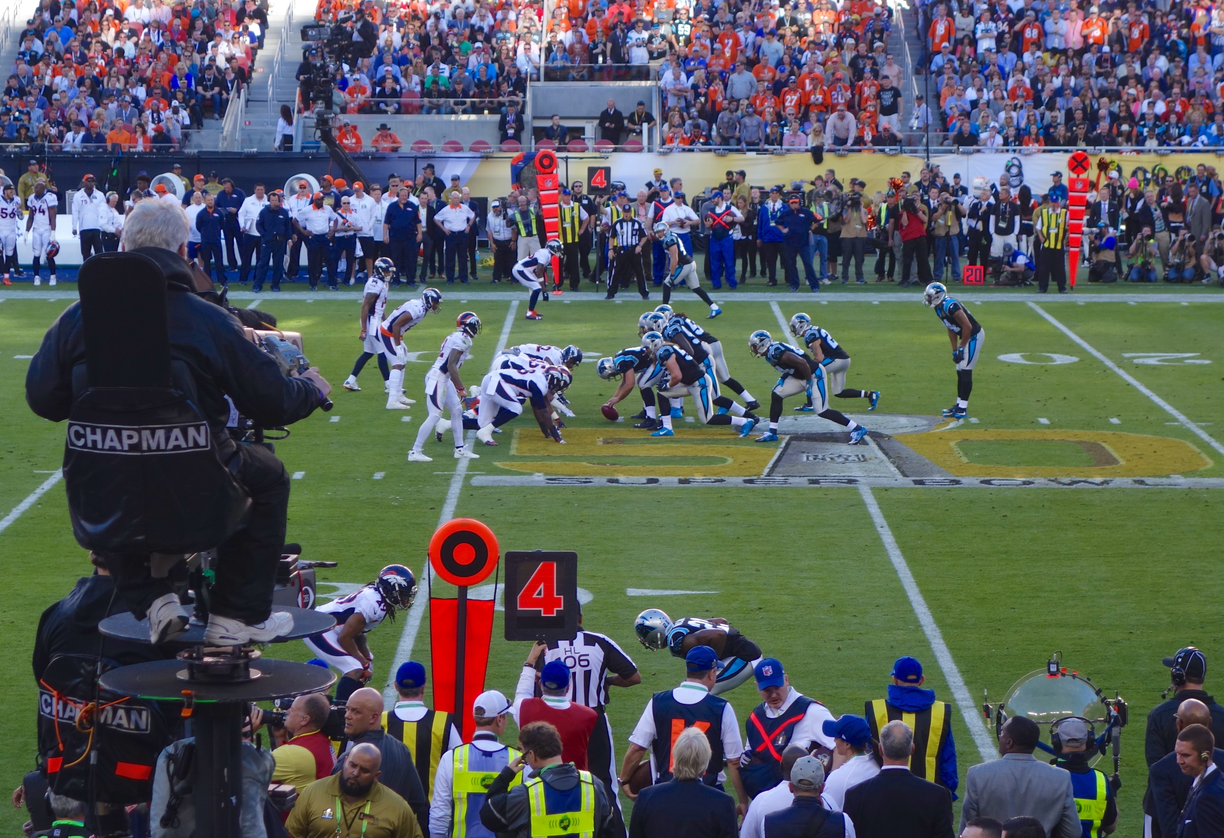 The Carolina Panthers on offense against the defense of the Denver Broncos during Super Bowl 50